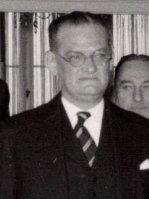 James Riddleberger was a American diplomat Srpski (latinica): Džejms Ridlberger je bio američki diplomata